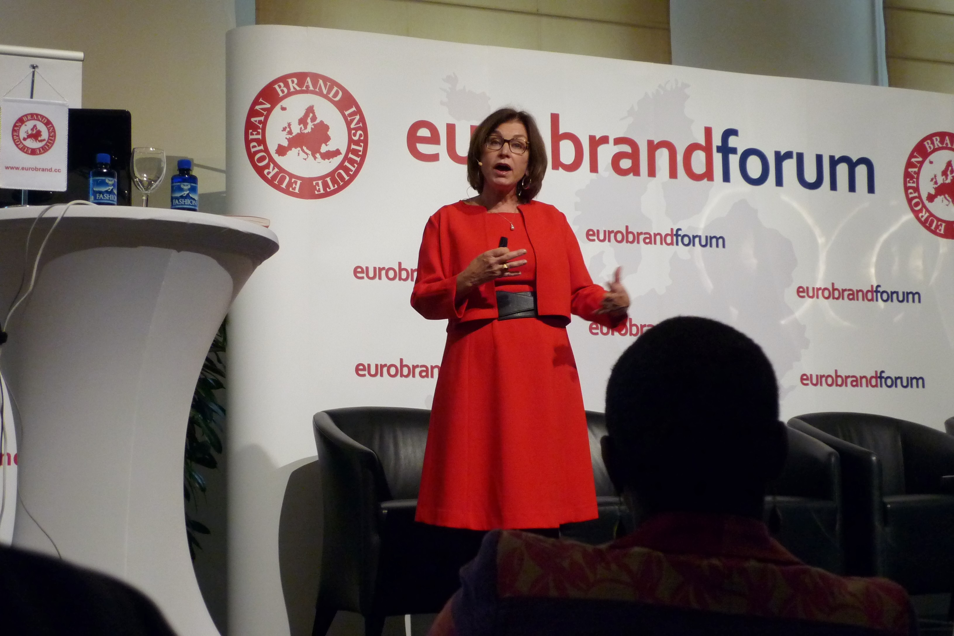 Catherine Kaputa